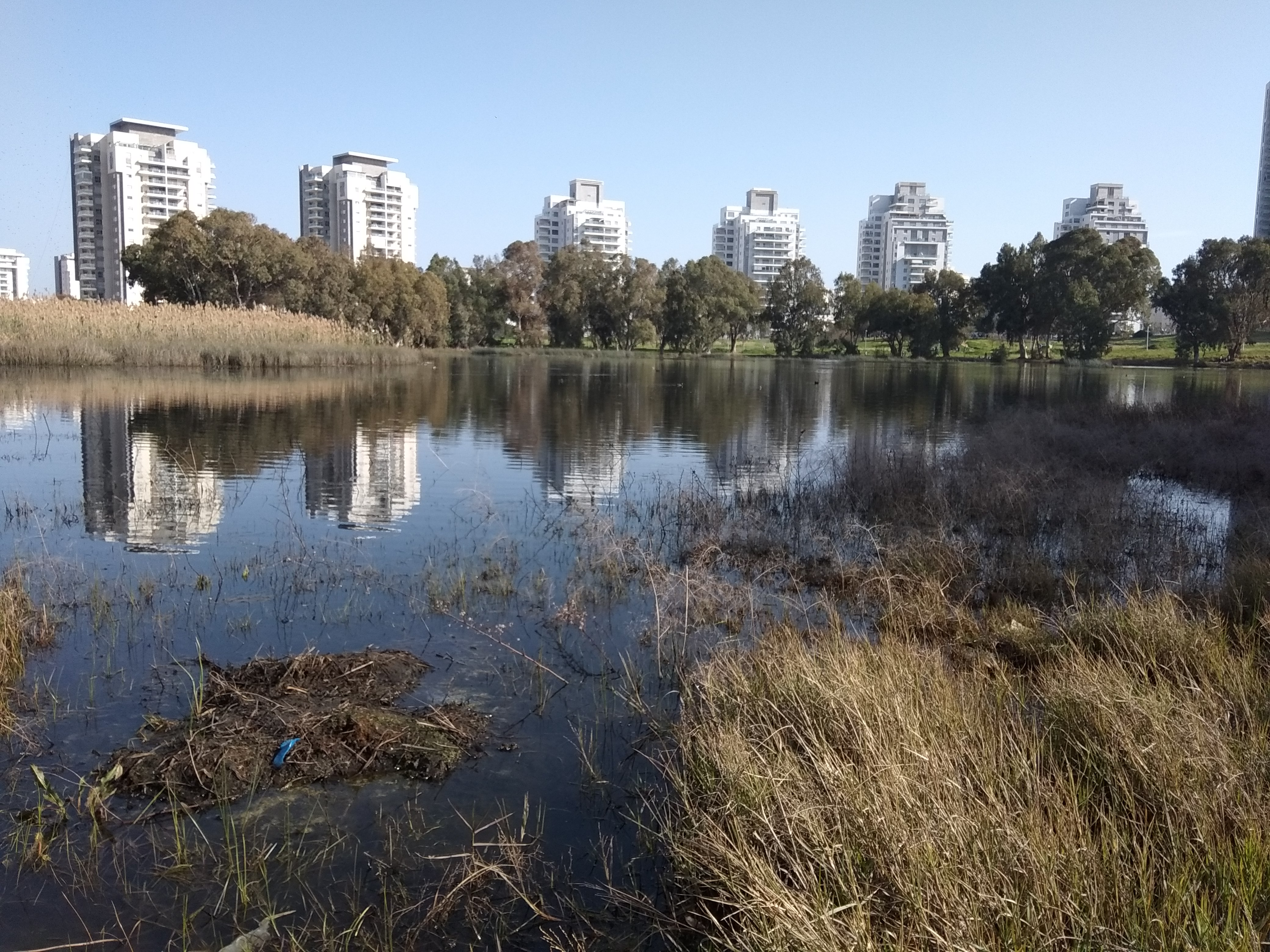 Netanya Winter pond from north, January 2019